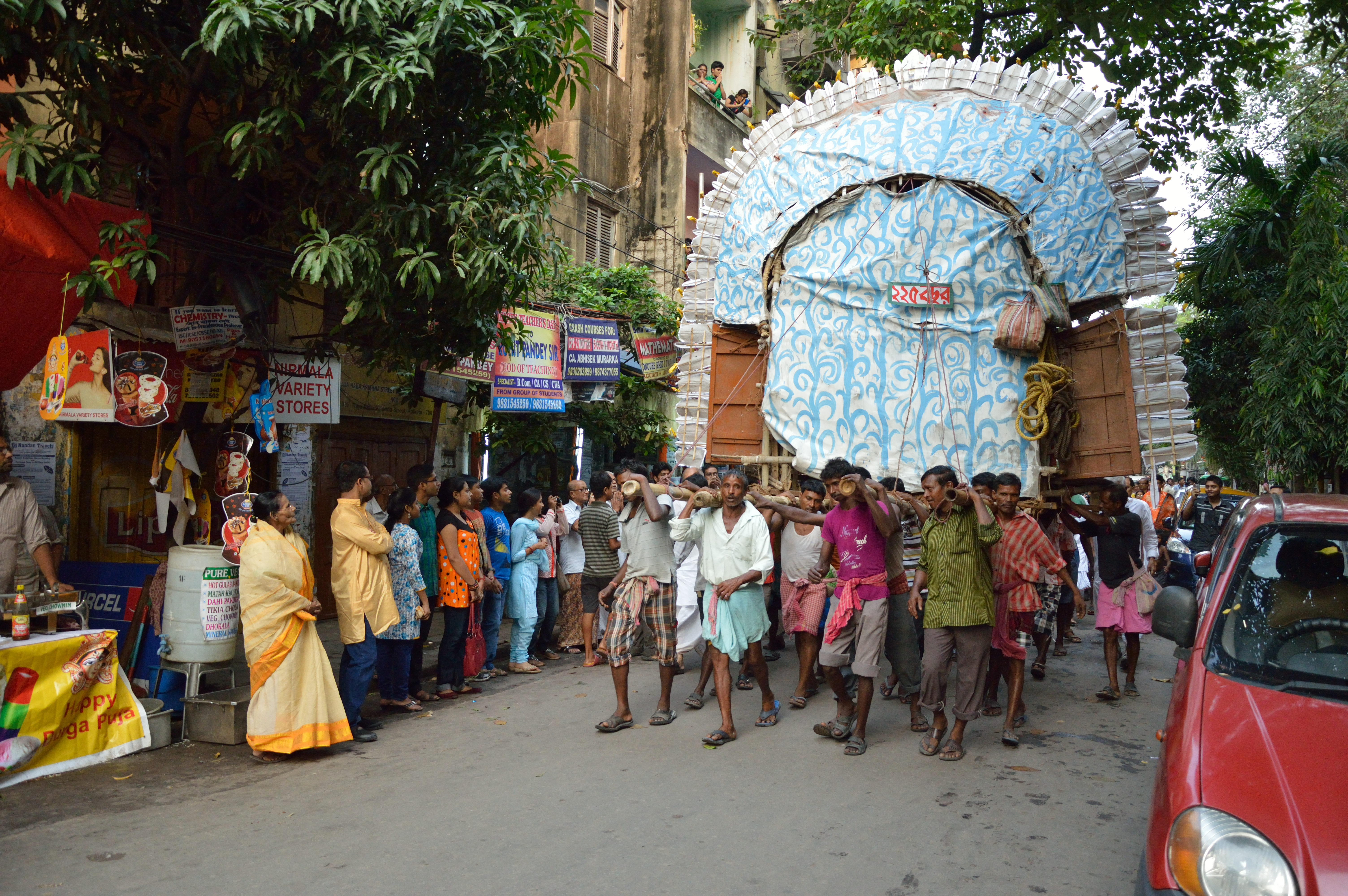 Photographed during the 'Durga along with her family' idol of the Sovabazar Royal Palace, 36 Raja Naba Krishna street, Kolkata, immersion on the river Hooghly from Baghbazar ghat, Kolkata. This Durga puja was founded on 1757 by Raja Nabakrishna Deb at Sovabazar, Kolkata.